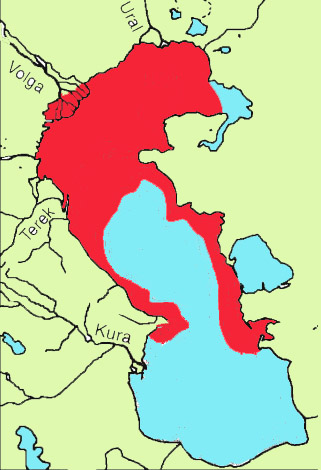 The range of the Granular pugolovka (Benthophilus granulosus)